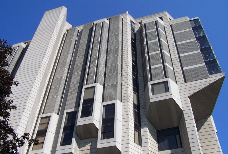 Robarts Library, University of Toronto